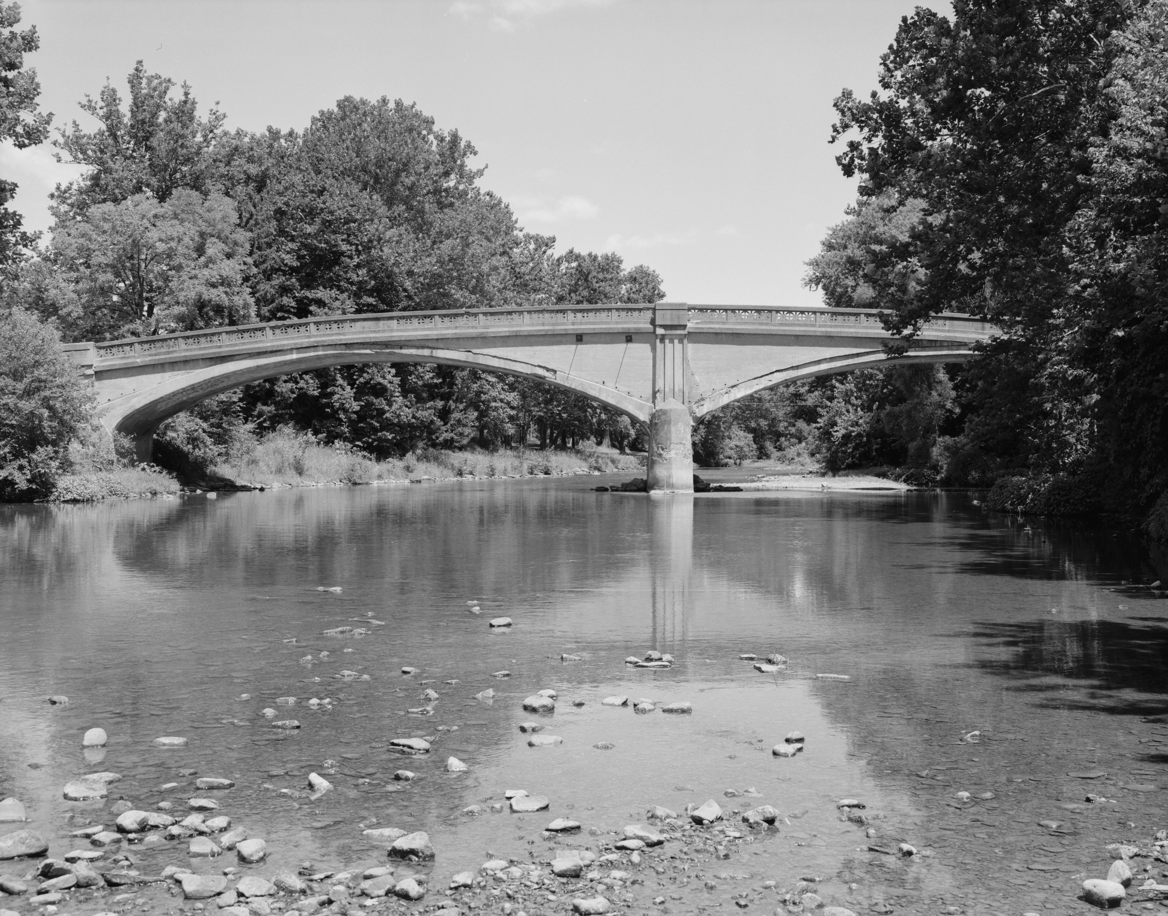 Southern (downstream) side of the original Bridge between Monroe and Penn Townships, which carried Legislative Route 54013 over Penns Creek near Selinsgrove in Monroe and Penn Townships of Snyder County, Pennsylvania, United States. Built in 1919, this multispan concrete barrel arch bridge was listed on the National Register of Historic Places in 1988; it remains listed on the Register despite having been removed in 1994.